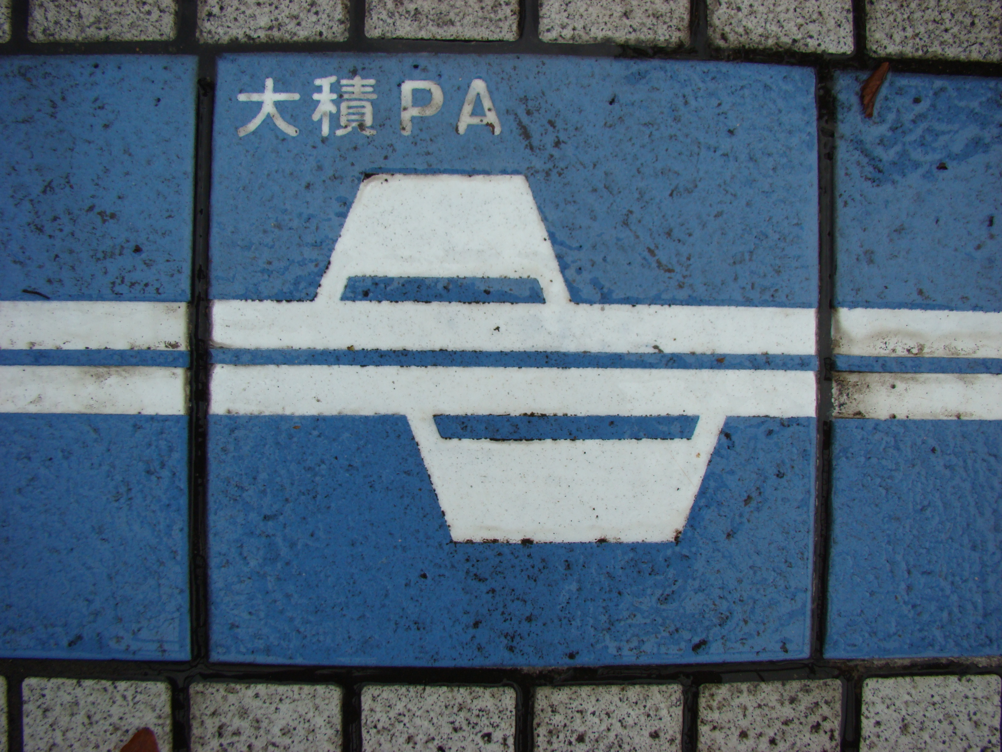 The tile which designed a shape of the Ozumi Parking Area（Hokuriku Expressway）（There is this tile in Hokuriku Expressway Nadachi-Tanihama Service Area.）. Place - Chayagahara,Joetsu City,Niigata Prefecture,Japan Date - August 9, 2009 Format - JPEG, 3264x2448pixel, 24bit colors. Photographer - NALA Wiki (talk)